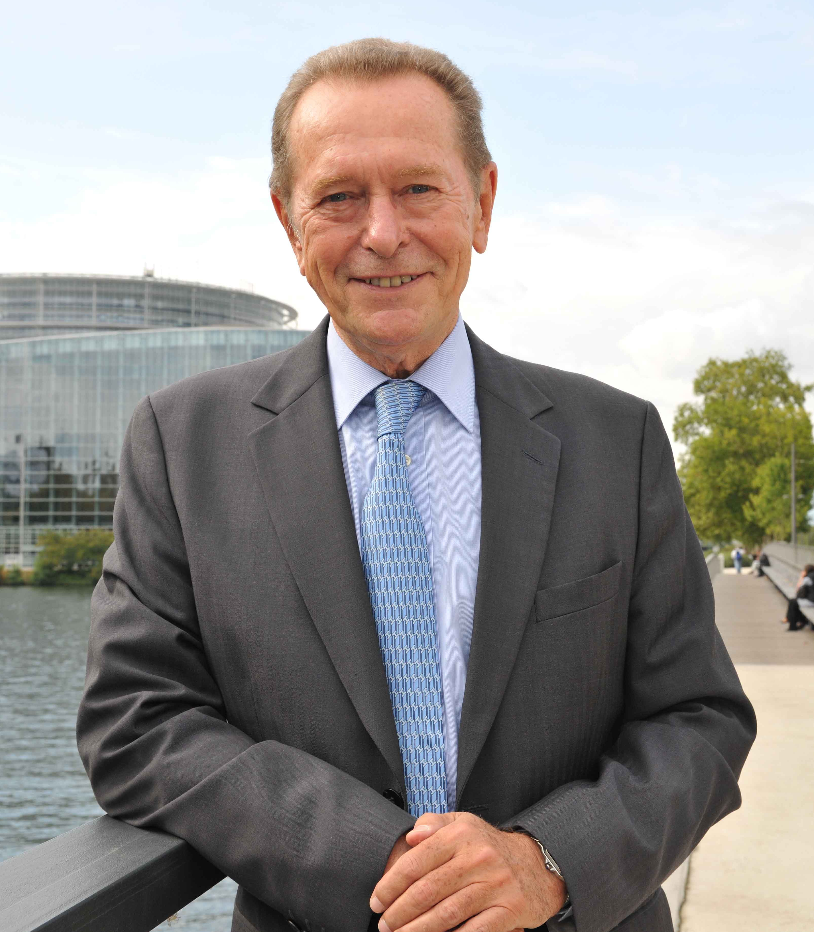 Dominique Baudis in front of the European Parliament (Strasbourg)